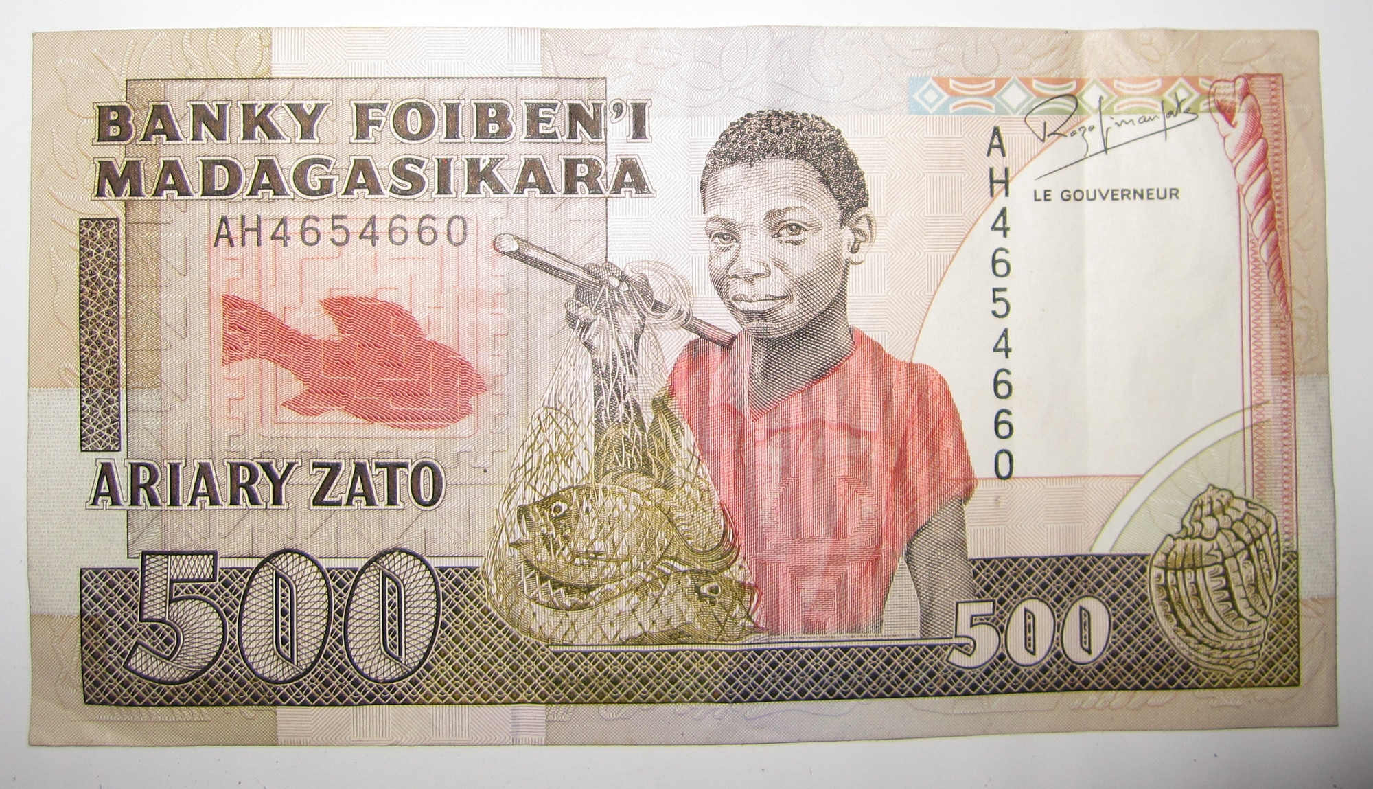 Madagascar banknote of 500 Francs Malgache from 1993